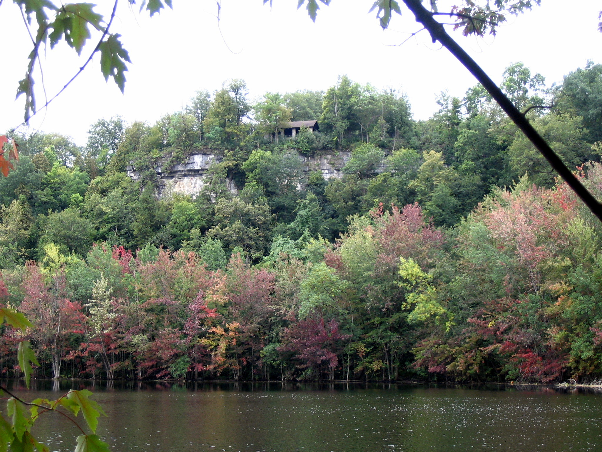 The Glacier (Green) lake in Clark Reservation State Park, New York, and the cliff of the former waterfall. A picnic shelter is visible on top of it.